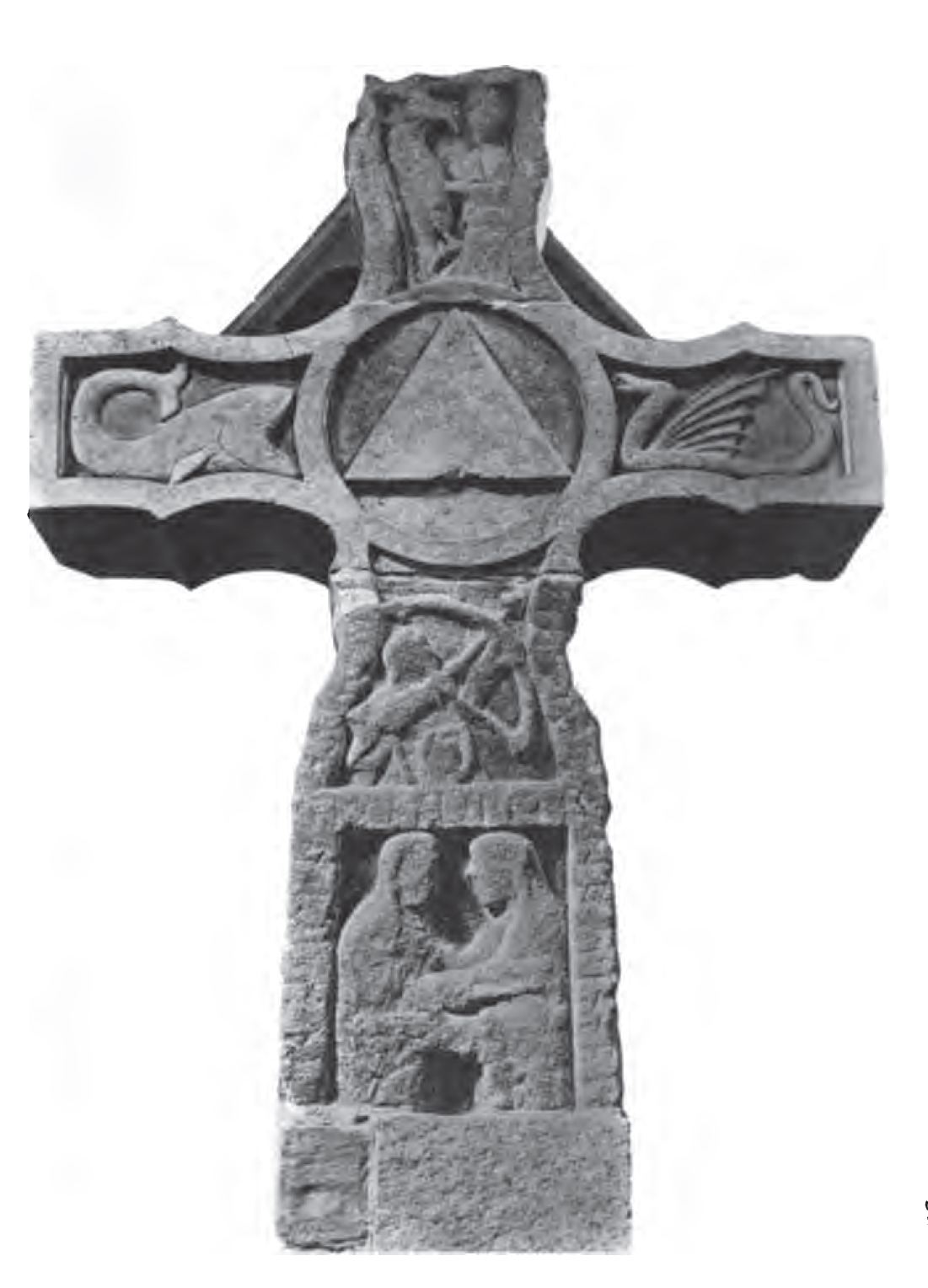 Captioned as "Fig. 4 Ruthwell Cross, South Face."